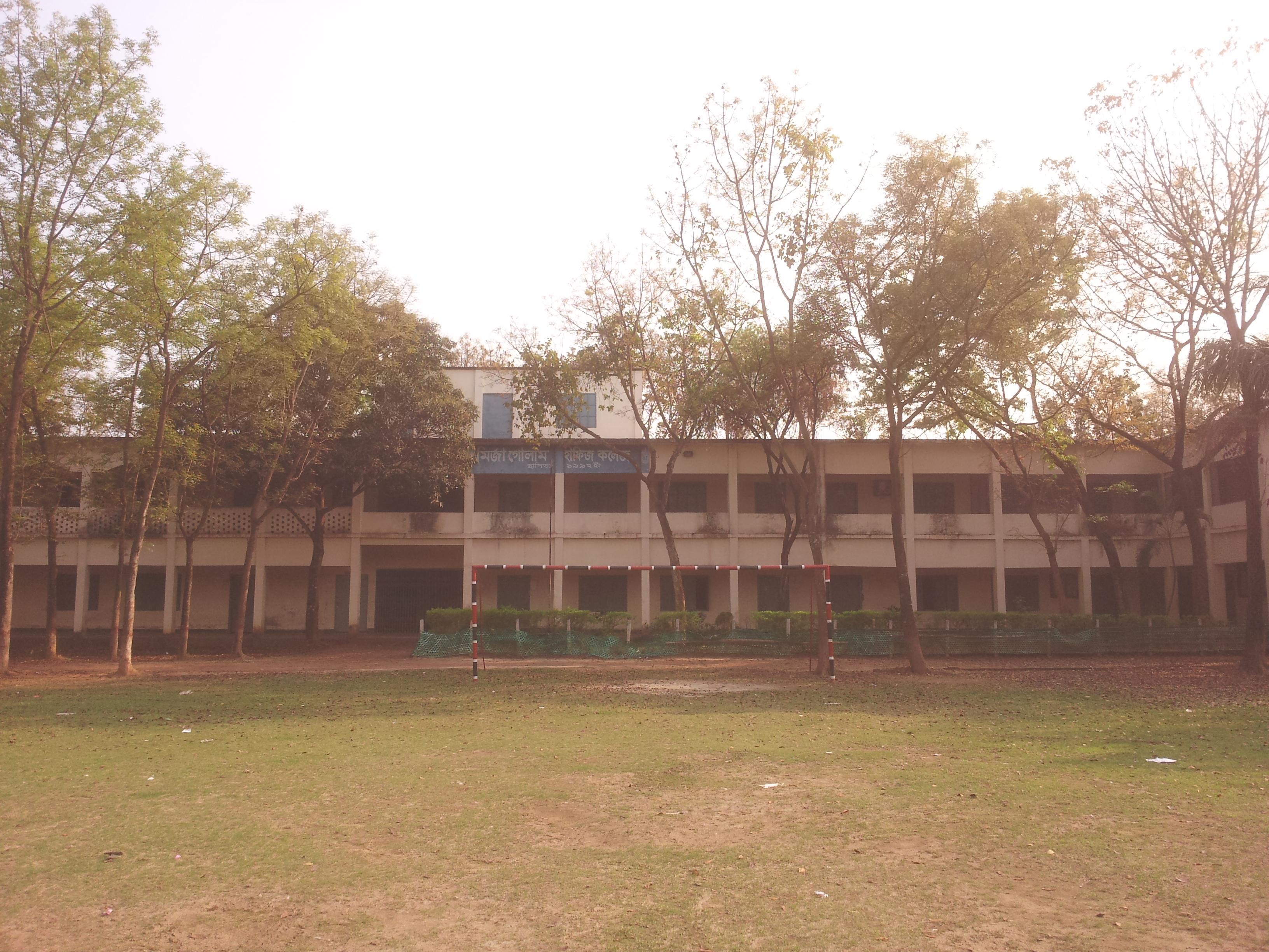 Mirza Golam Hafiz College, Ashulia, Savar, Dhaka.